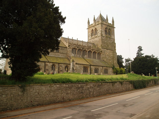 Laxton Church. Dedicated to St Michael the Archangel, Laxton Church dates back to the 12th century.